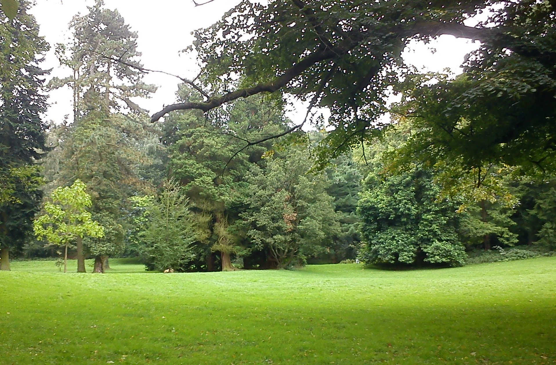 von-Halfern-Park in Aachen